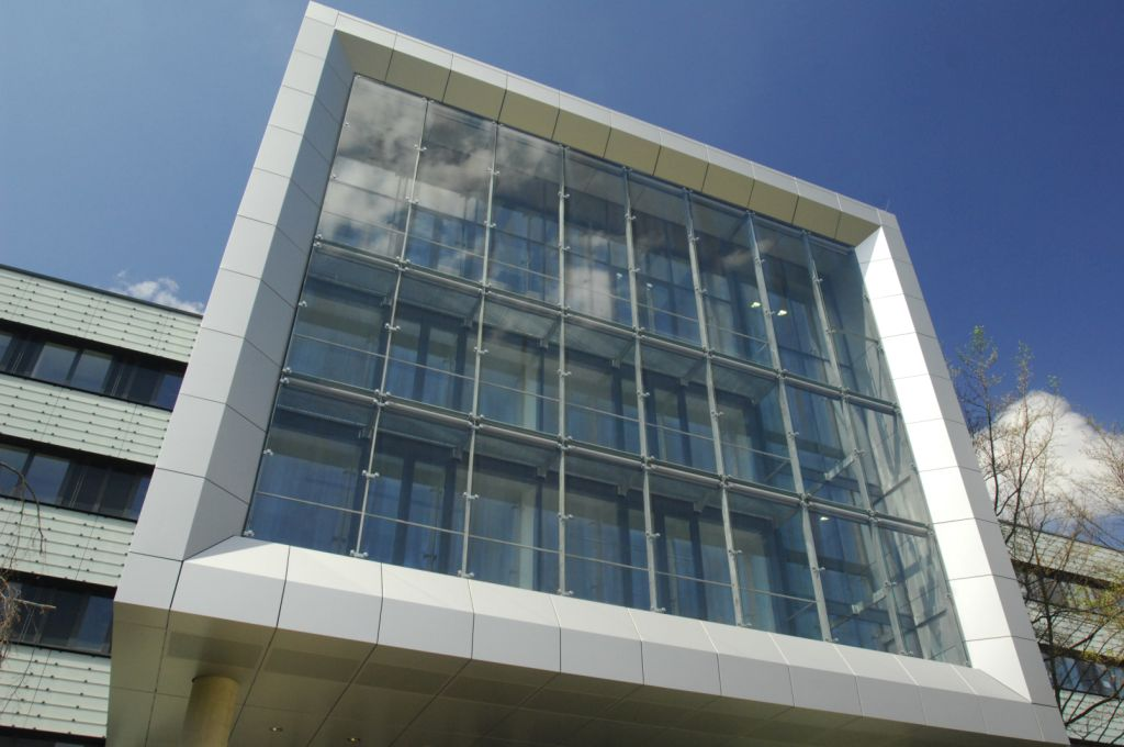 Mainbuilding of the Brandenburg Technical University